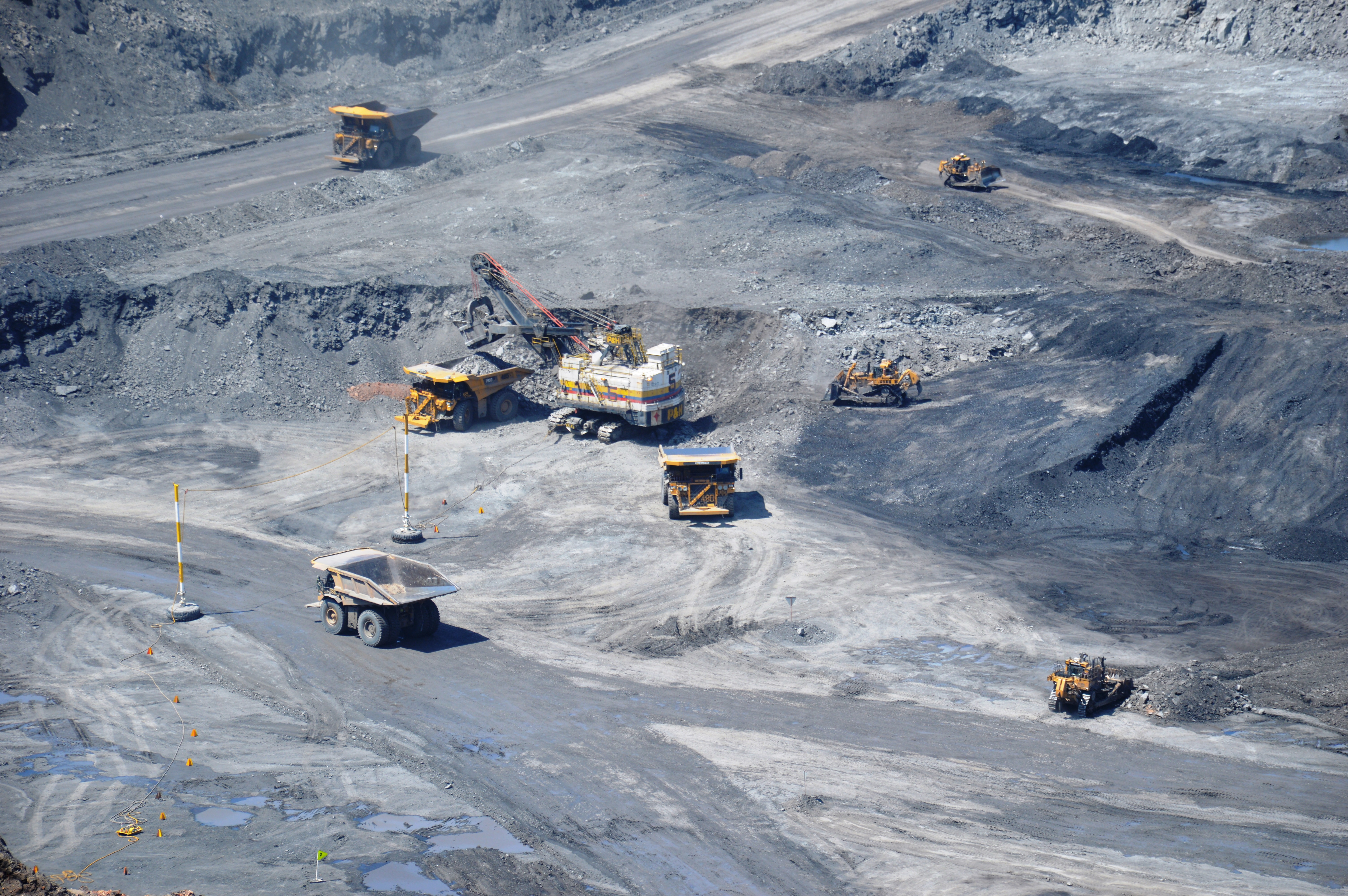 Coal exploitation in the Patilla pit - Cerrejón